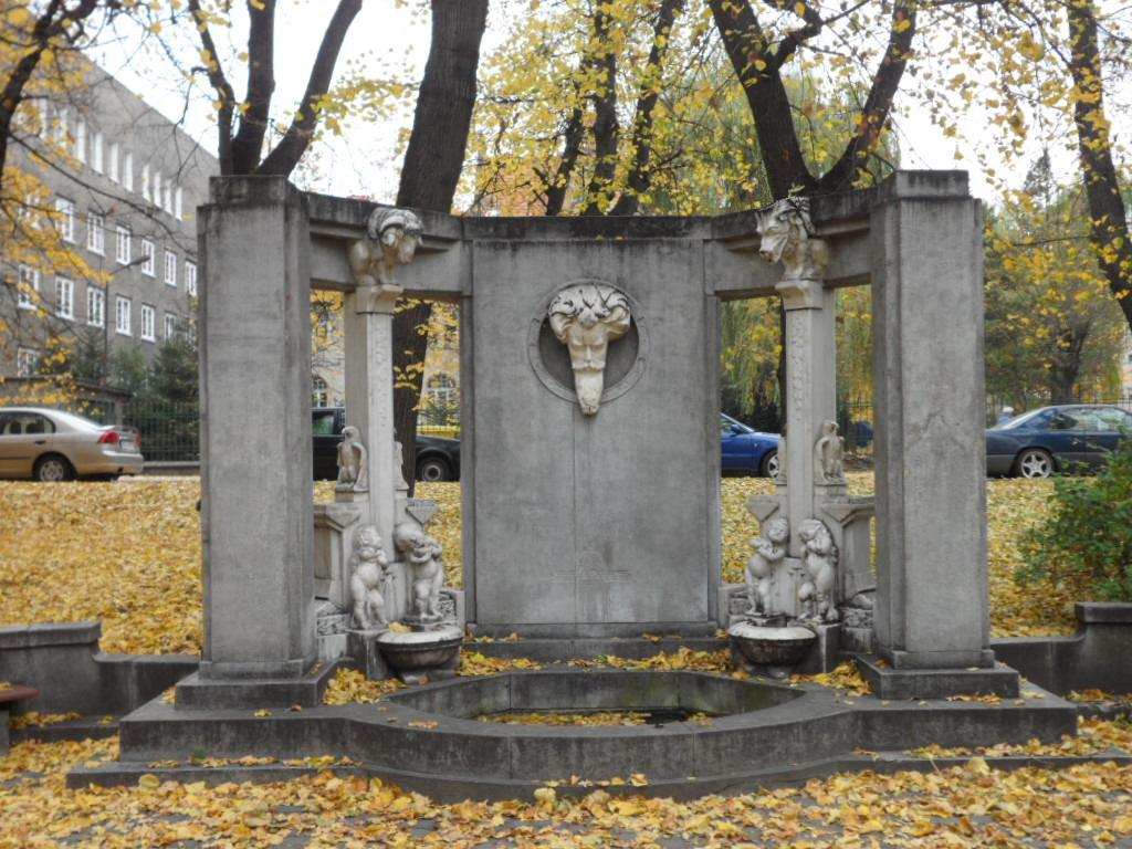 monument for the silesian poet Philo vom Walde (Johannes Reinelt) at Leobschütz